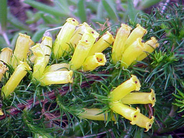 Species: Erica patersonia Family: Ericaceae Image No. 1